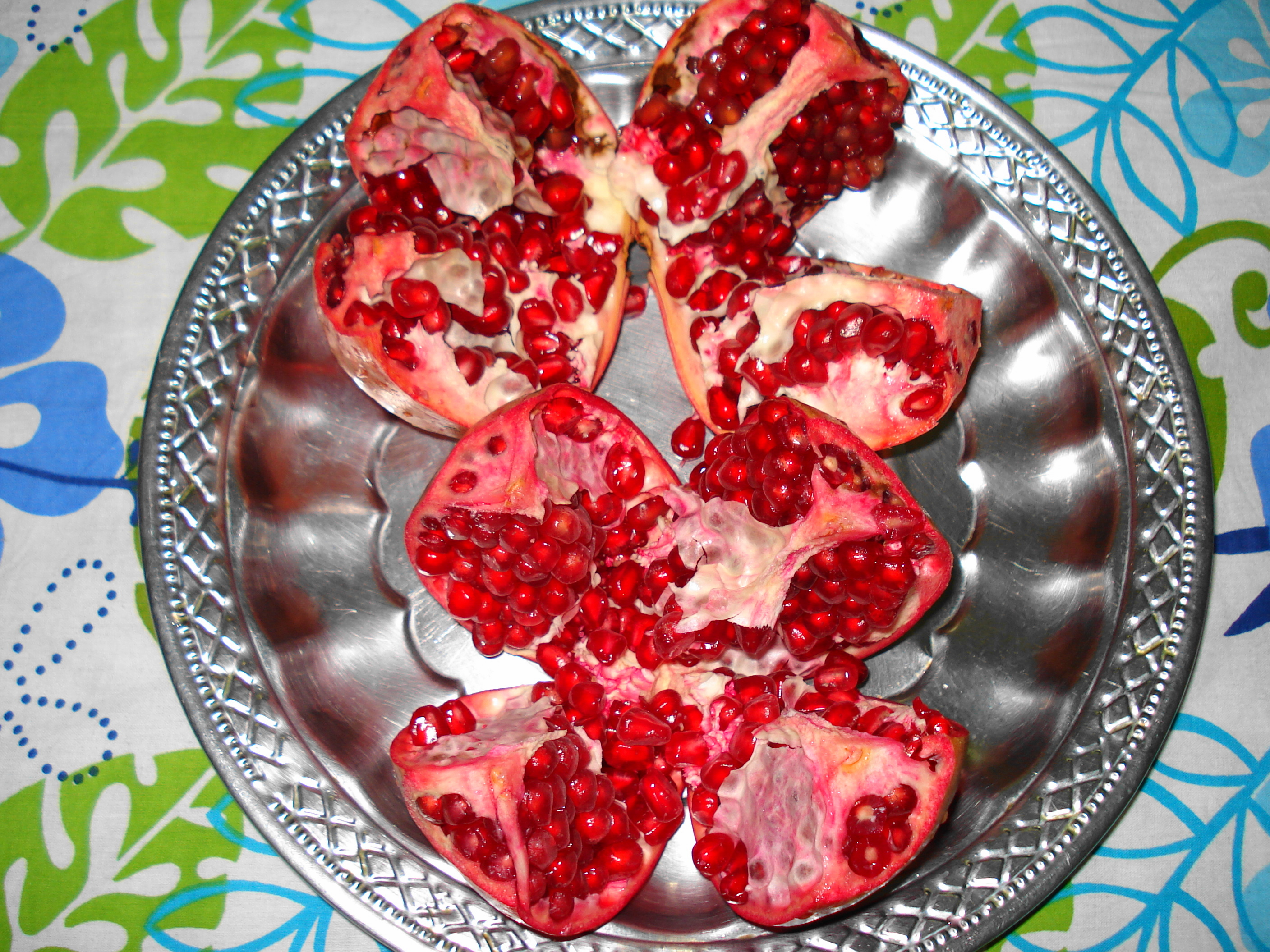 Anar in urdu